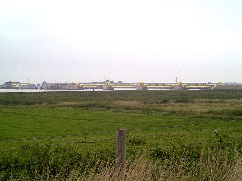 Ems tidal barrier near Emden, between Gandersum on the north bank and Nendorp on the south bank of the Ems river, seen from south bank